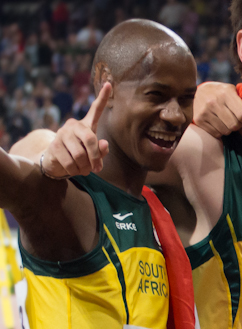 World Record by South African Team in 4x100m Relay. Your will not believe the seats I had! London 2012